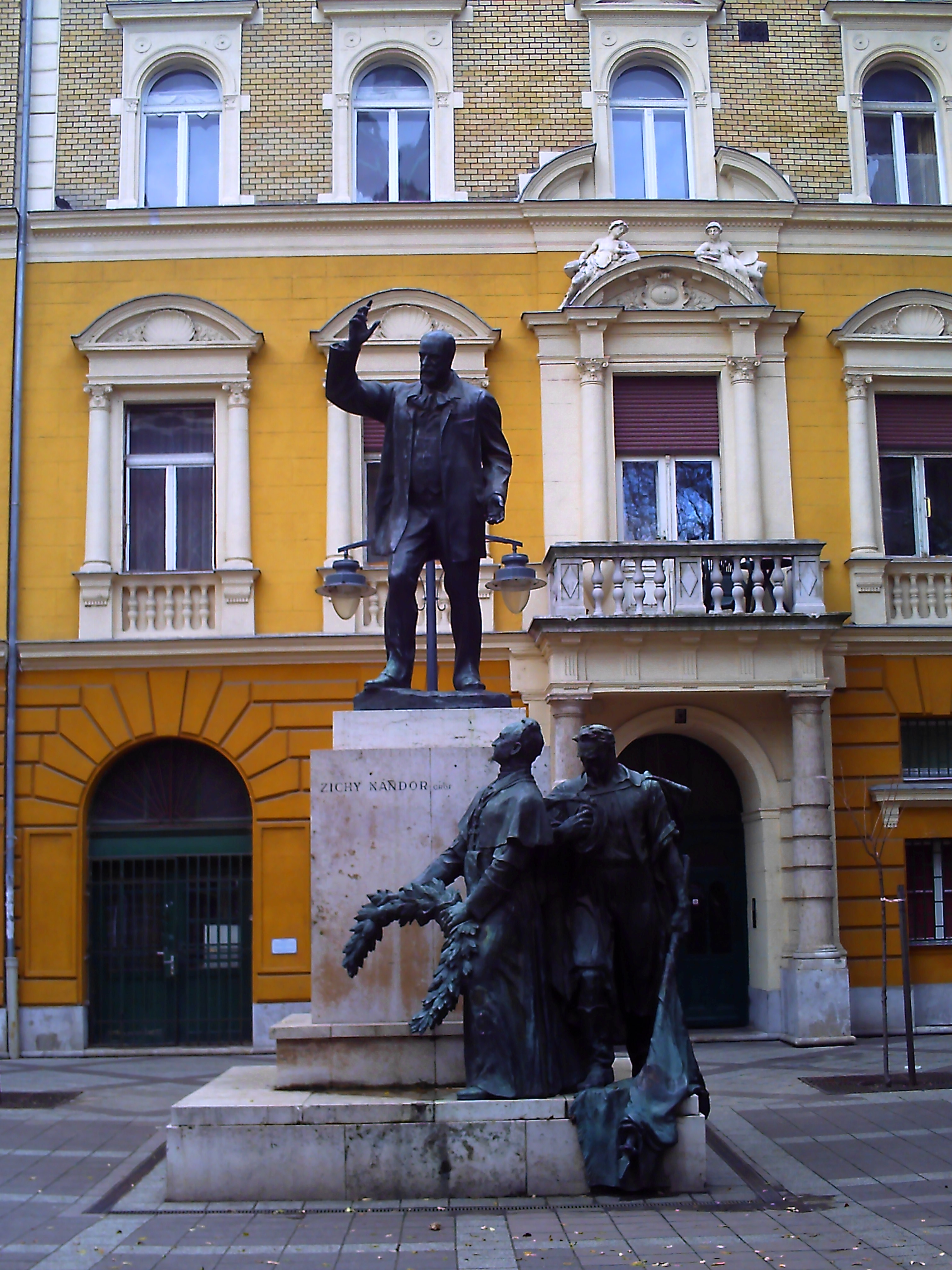 Statue of Nándor Zichy, Lőrinc pap Square